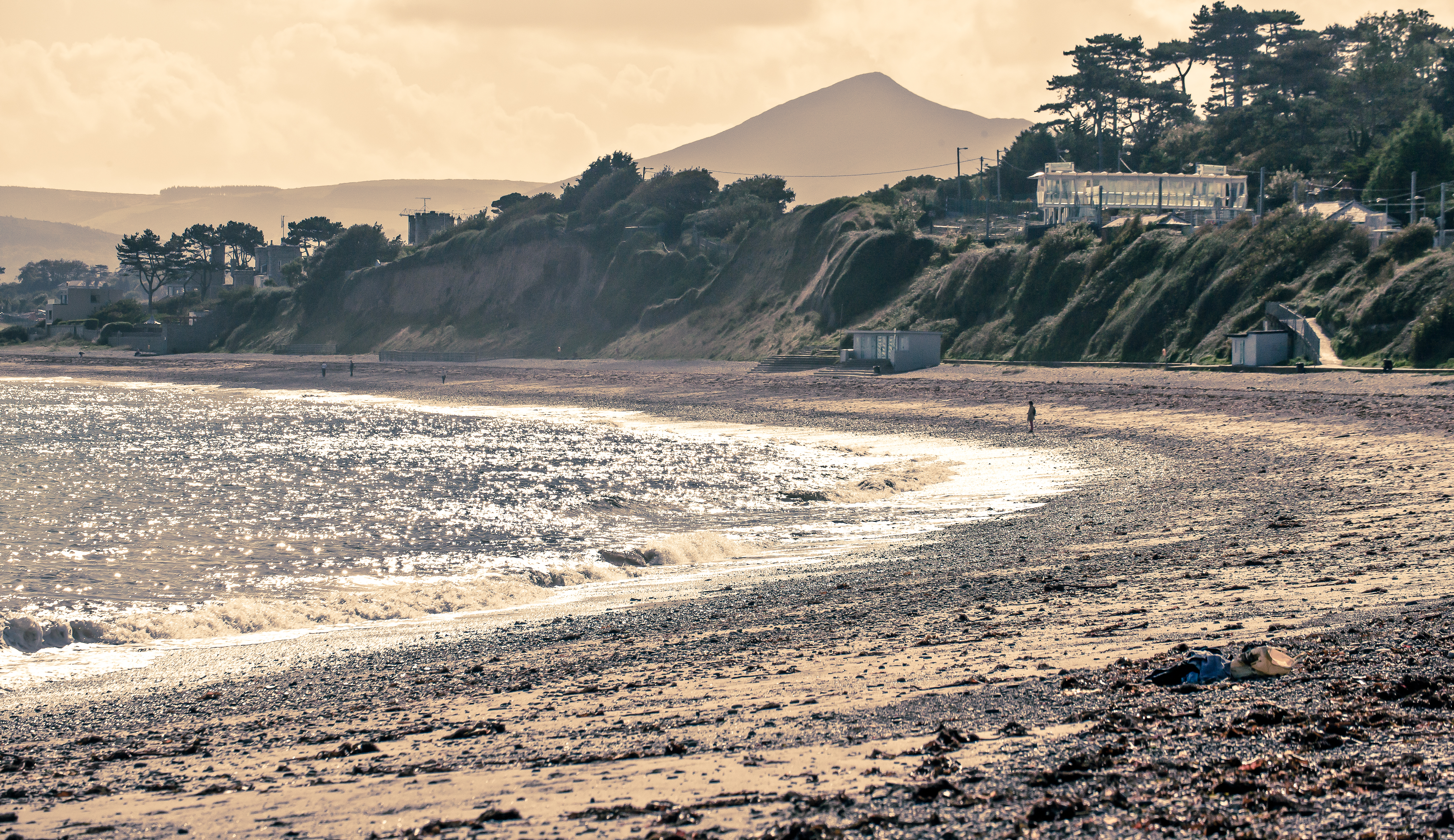 Killiney Beach - South Of Dublin City (Ireland)